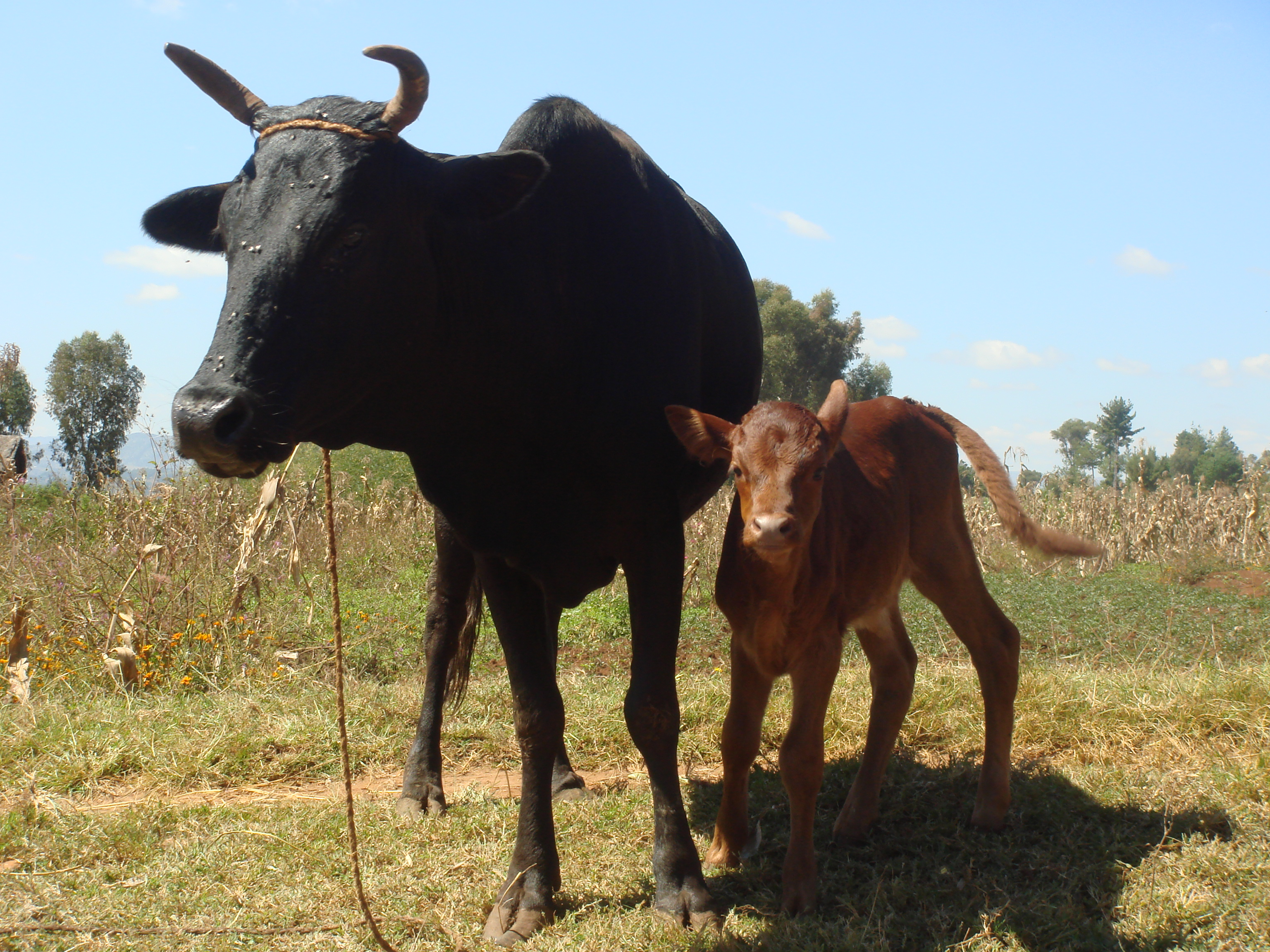 Mother zebu and calf, Madagascar